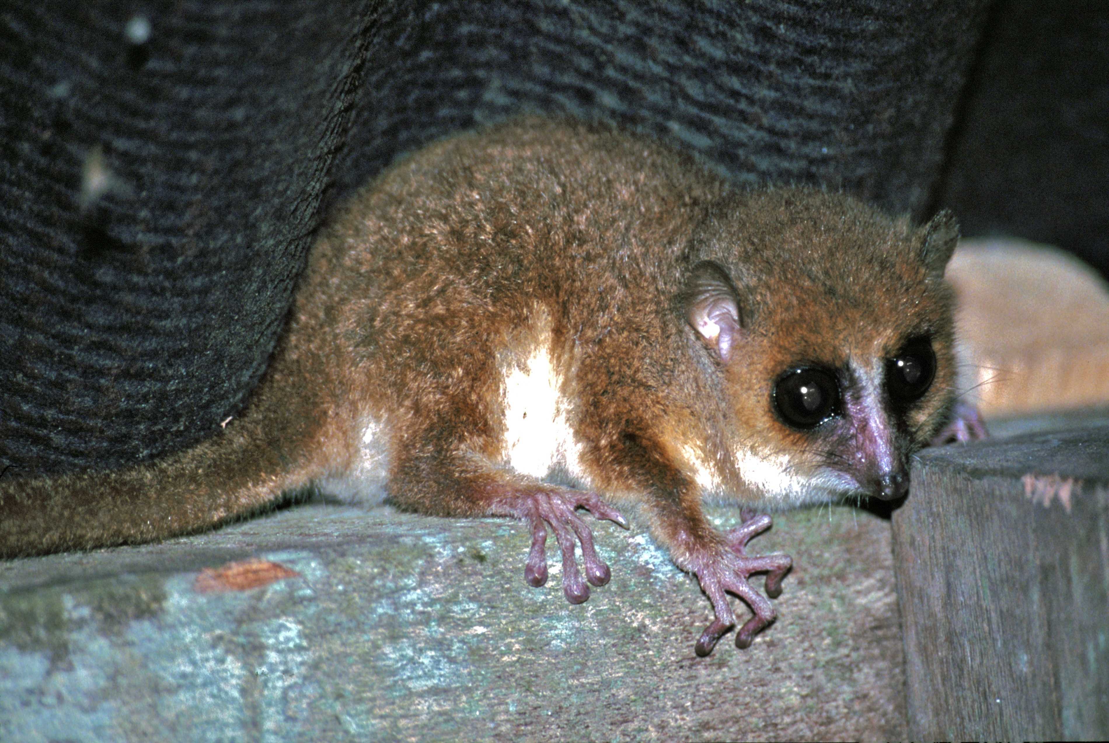 Nosy Mangabe, MADAGASCAR Scanned Slide from 2004